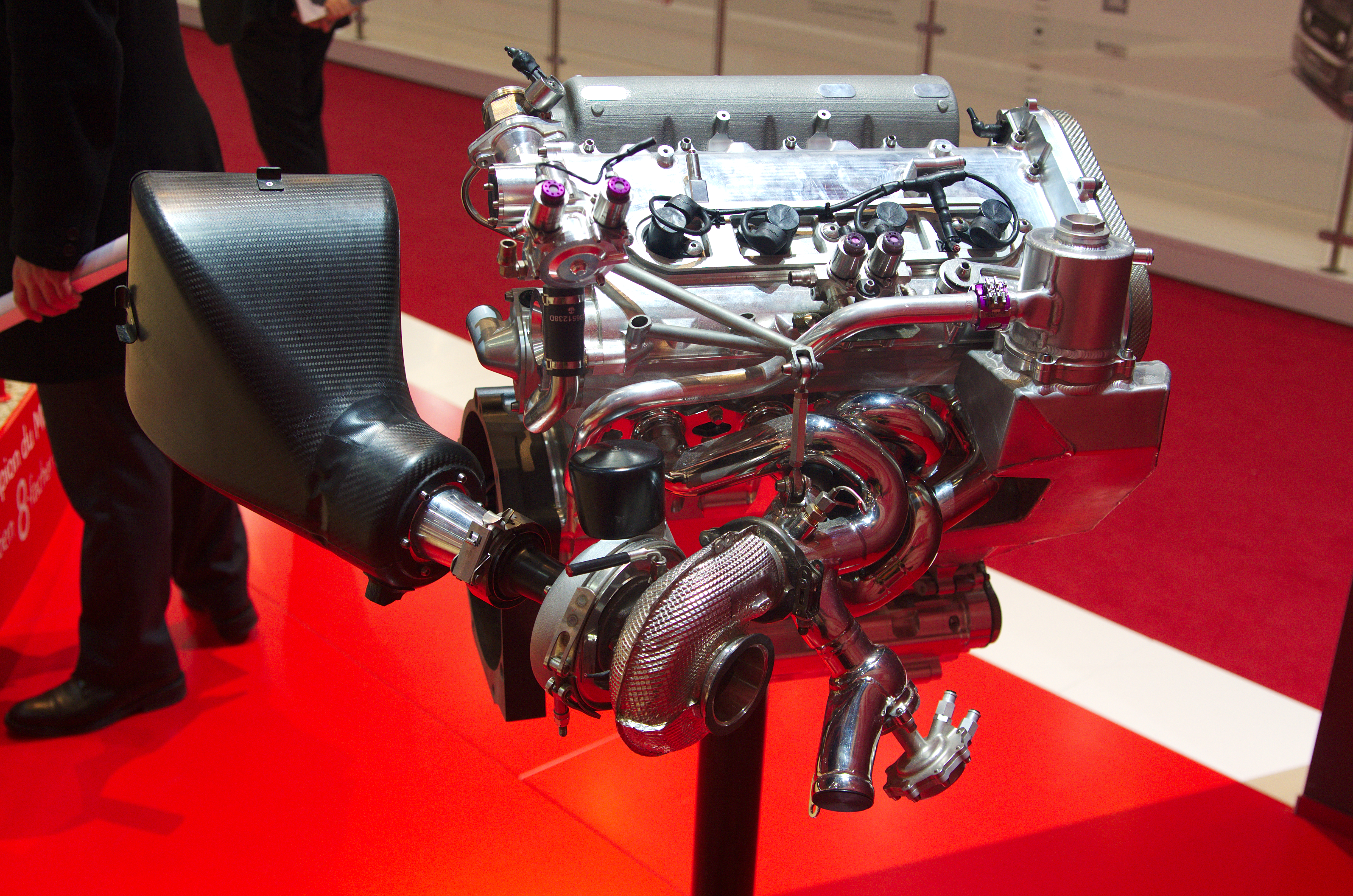 Geneva MotorShow 2013 - Citroen DS3 WRC 2013 engine 1